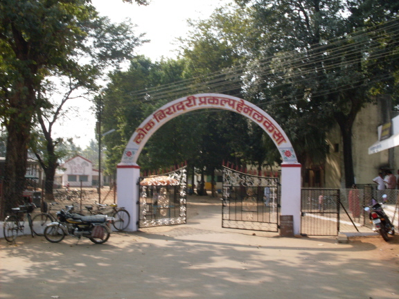 Gate of the Lok Biradari Prakalp